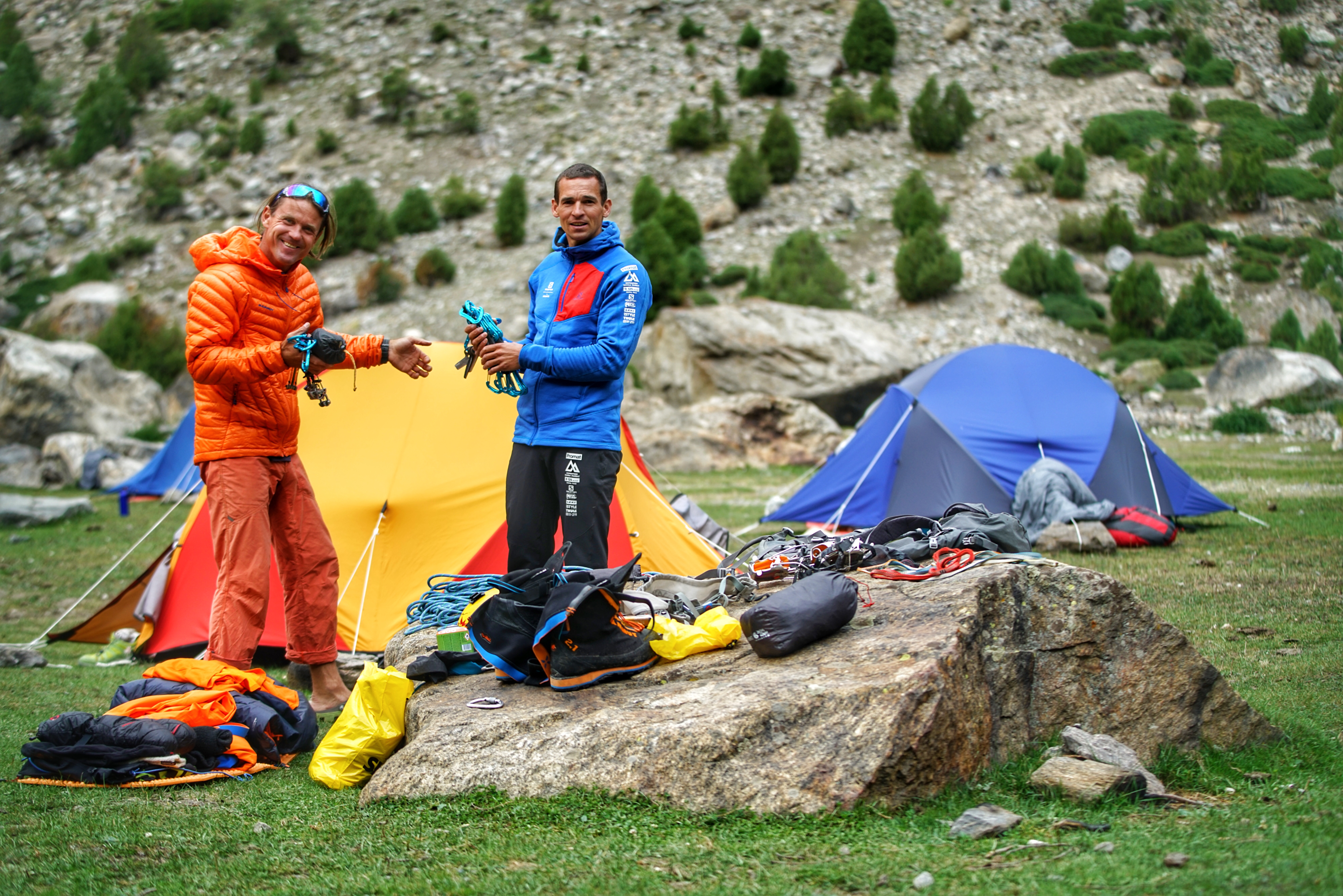 Tomas Petrecek - Baleni a priprava v BC - Nanga Parbat